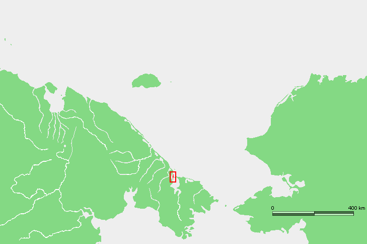 location map